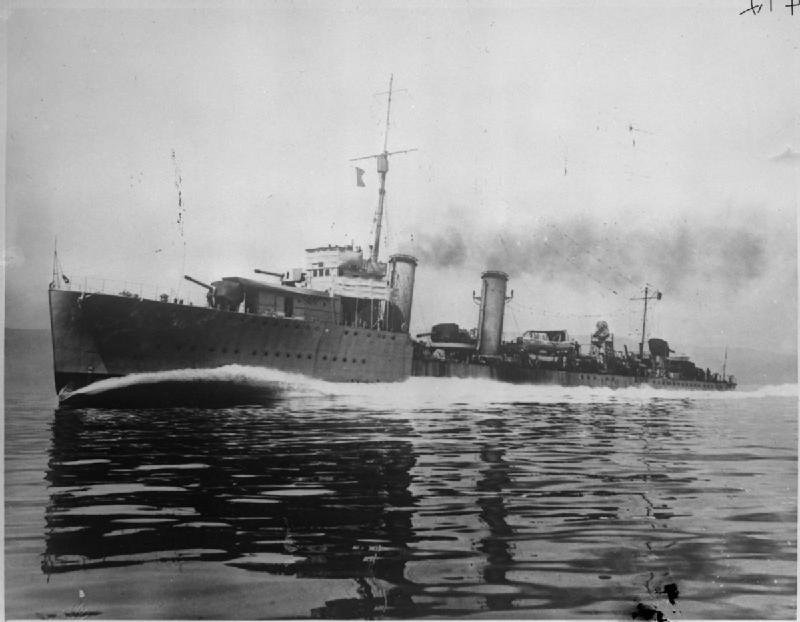 Photograph of British Admiralty type destroyer leader HMS Mackay underway at speed.